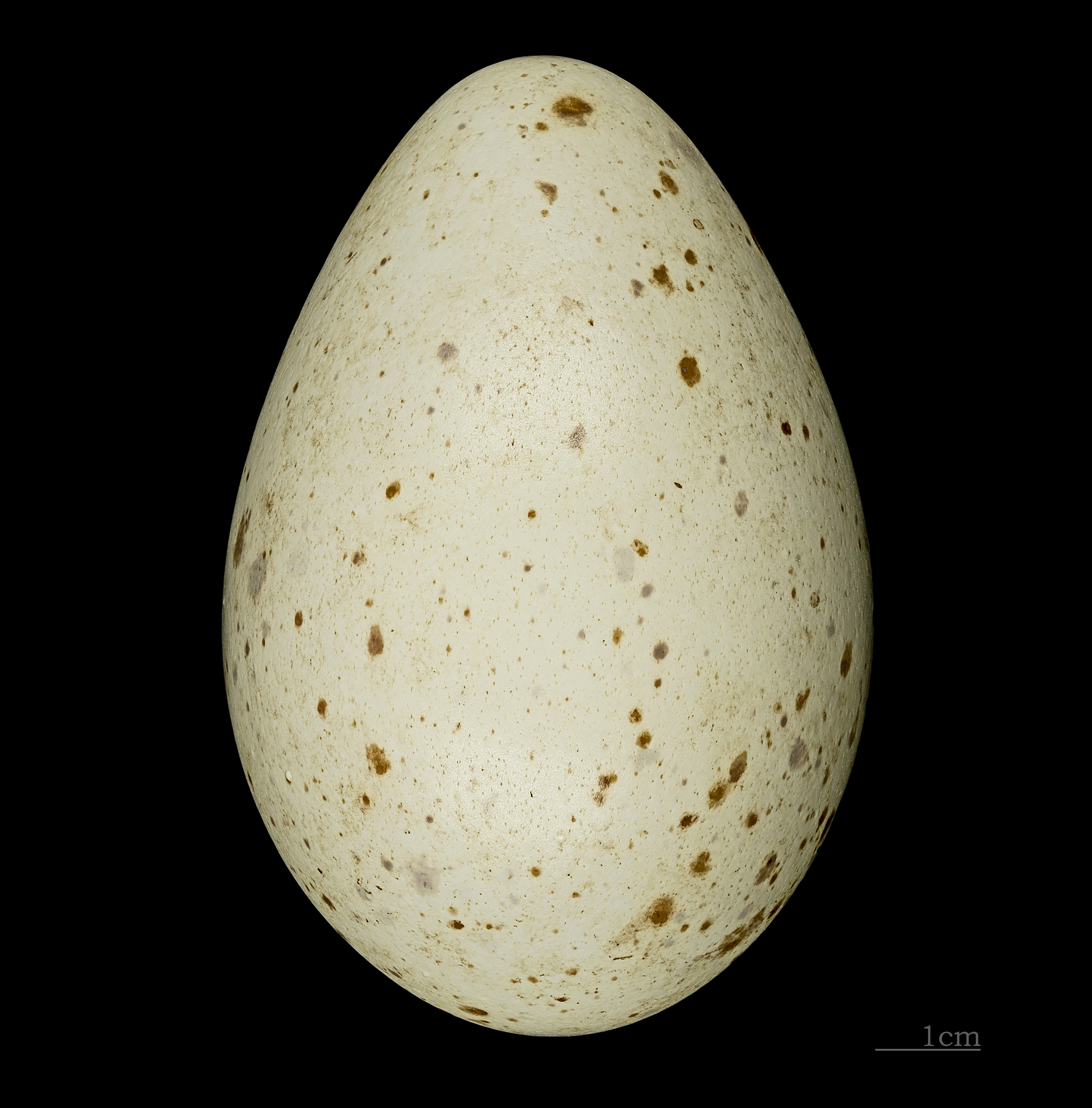 Egg of Sarus Crane. Collection of Jacques Perrin de Brichambaut.